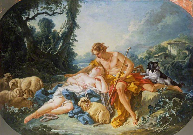 (c) The Wallace Collection; Supplied by The Public Catalogue Foundation